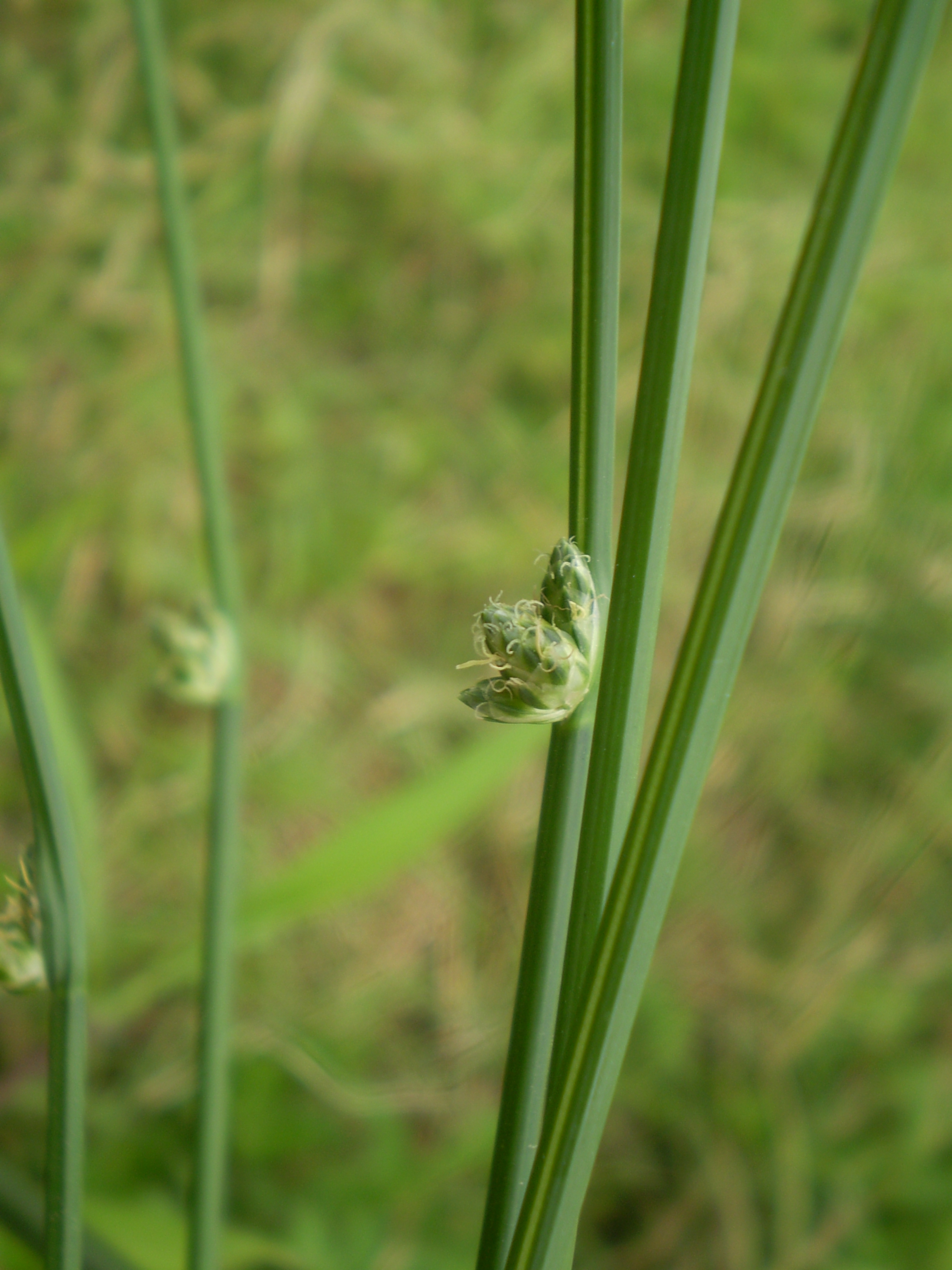 Scirpus hotarui